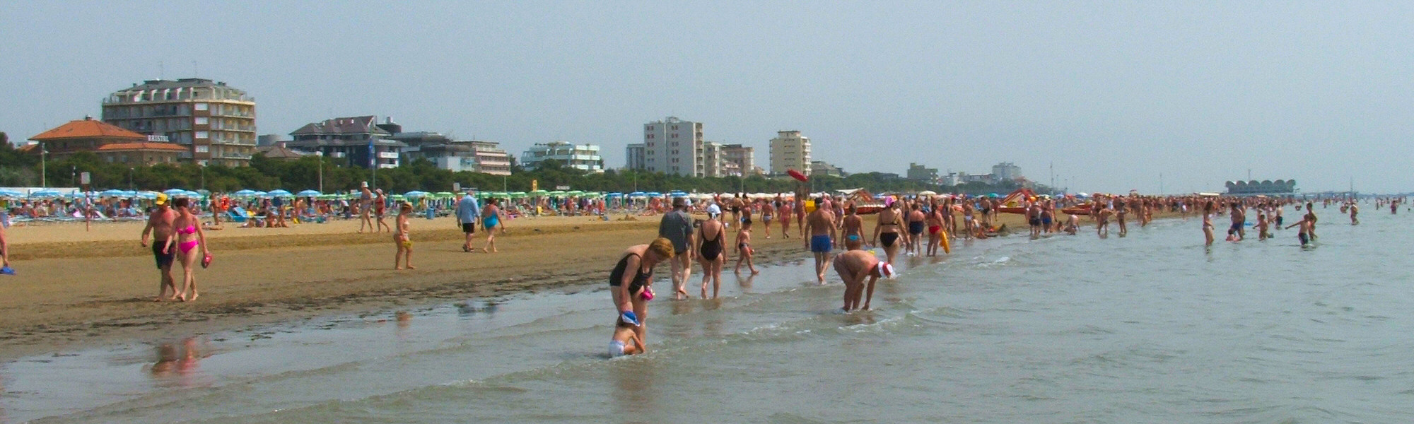 Lignano Sabbiadoro (UD), Italy - beach